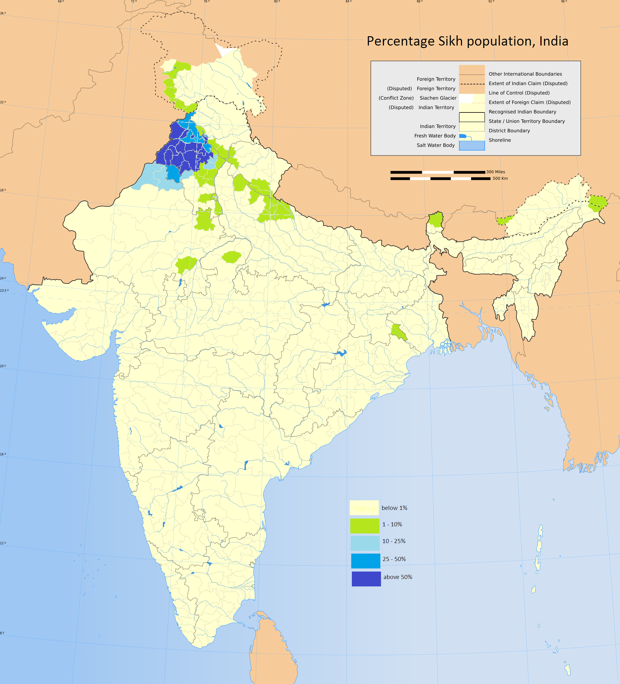 District-wise percentage population of Sikhs in India.